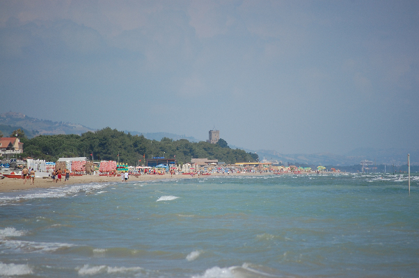 Silvi Marina - Spiagga lato settentrione